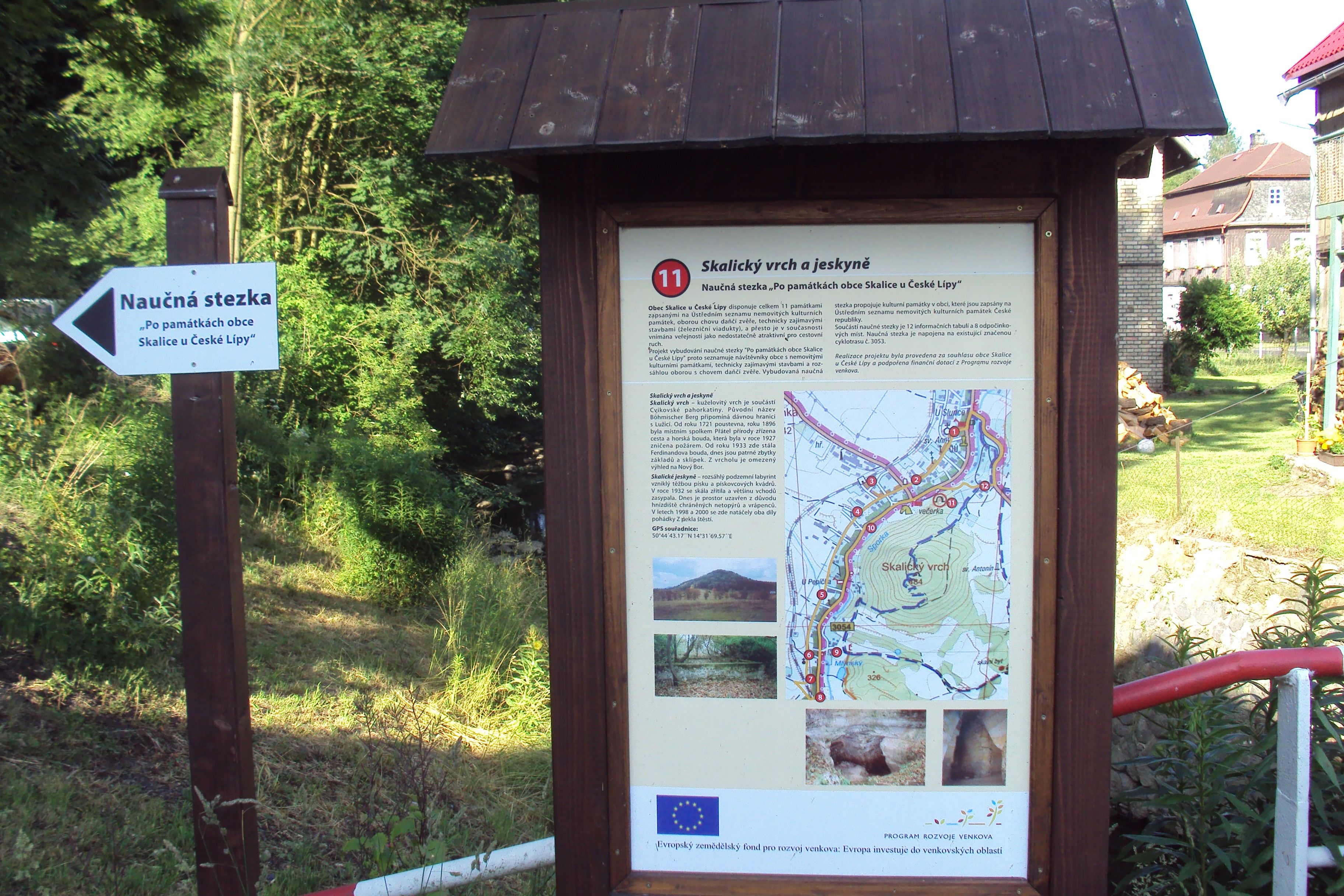 Stop 11 on the Skalice nature trail: the caves